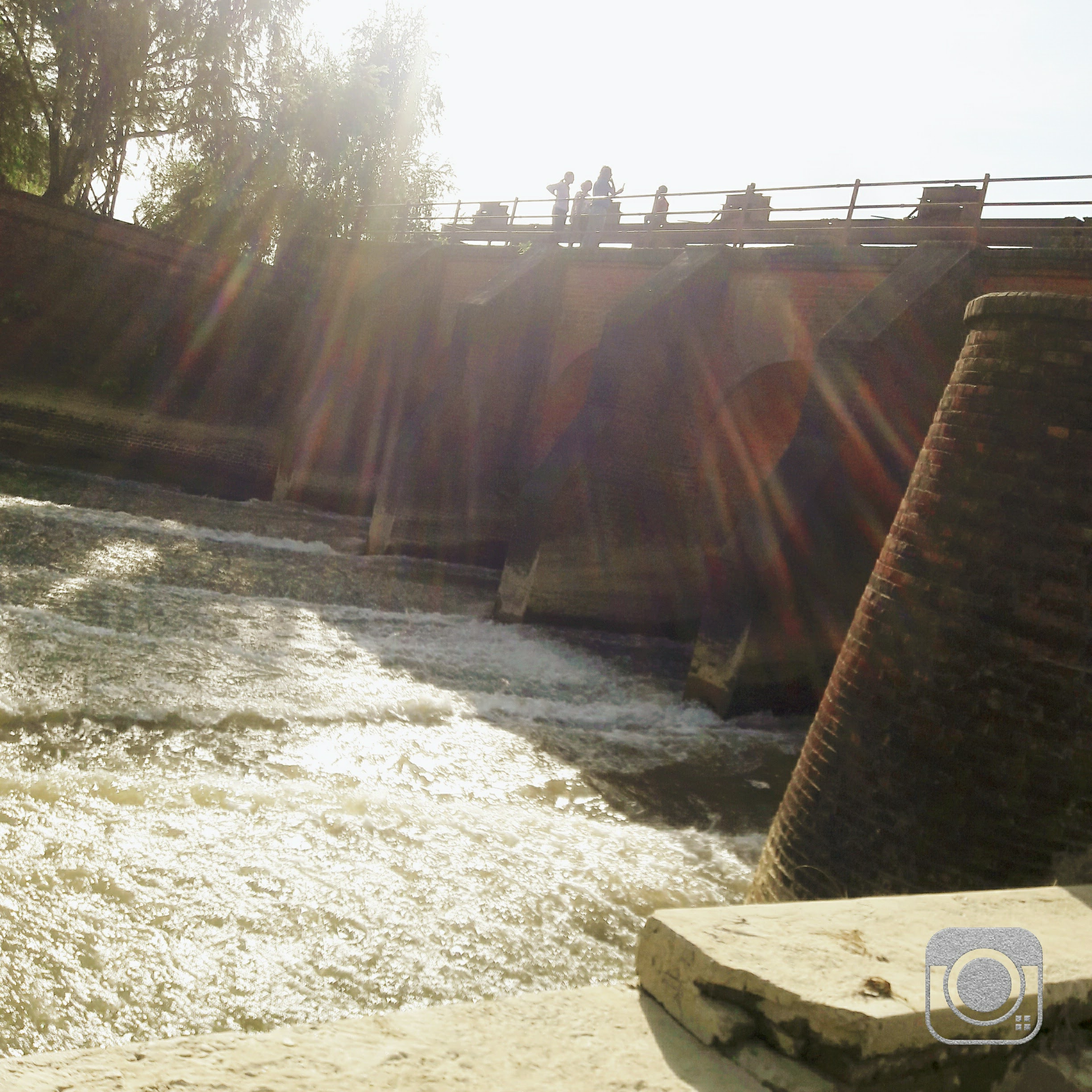 This dam was constructed in Fattepur, Saptari to redirect the flow of water of Triyuga river in the canal (west of main dam)